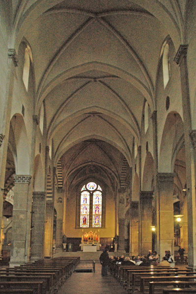 Santa Trinita. Florence